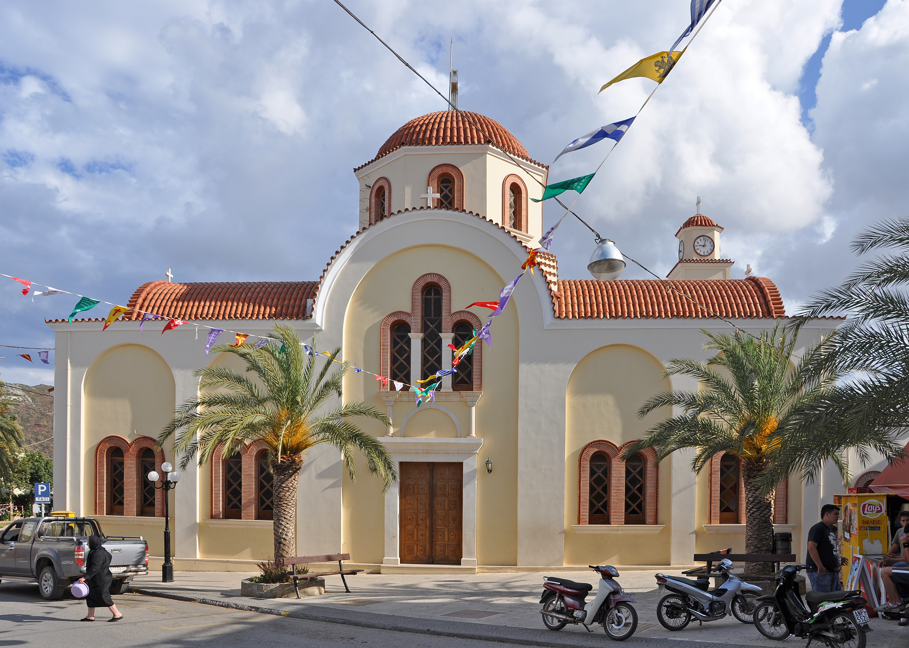 Palekastro (Eastern Crete, Greece): the church